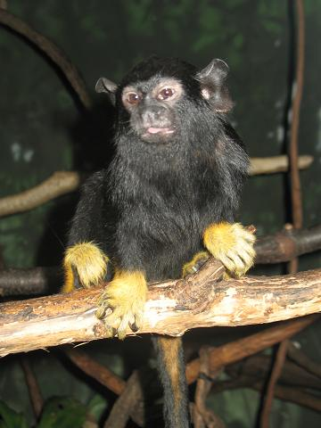 Description: Golden-handed Tamarin - Source: own work - Location: Central Park Zoo, New York - Author: self, User:Stavenn